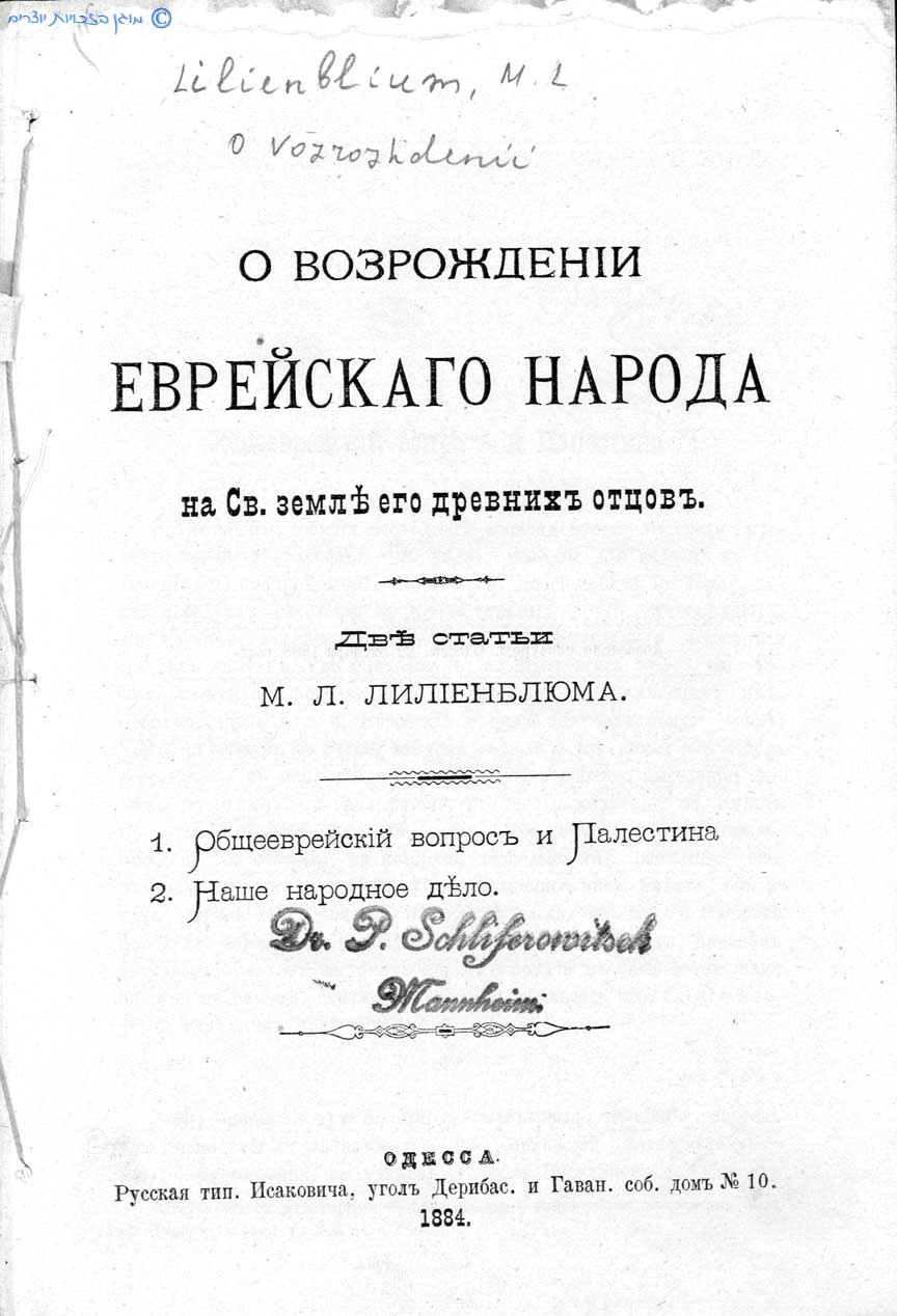 The First page of the first edition of "On the Revival of the Hebrew People in their Ancestral Land", Odessa, 1884, in Russian. Jewish writer Moshe Leib Lilienblum.